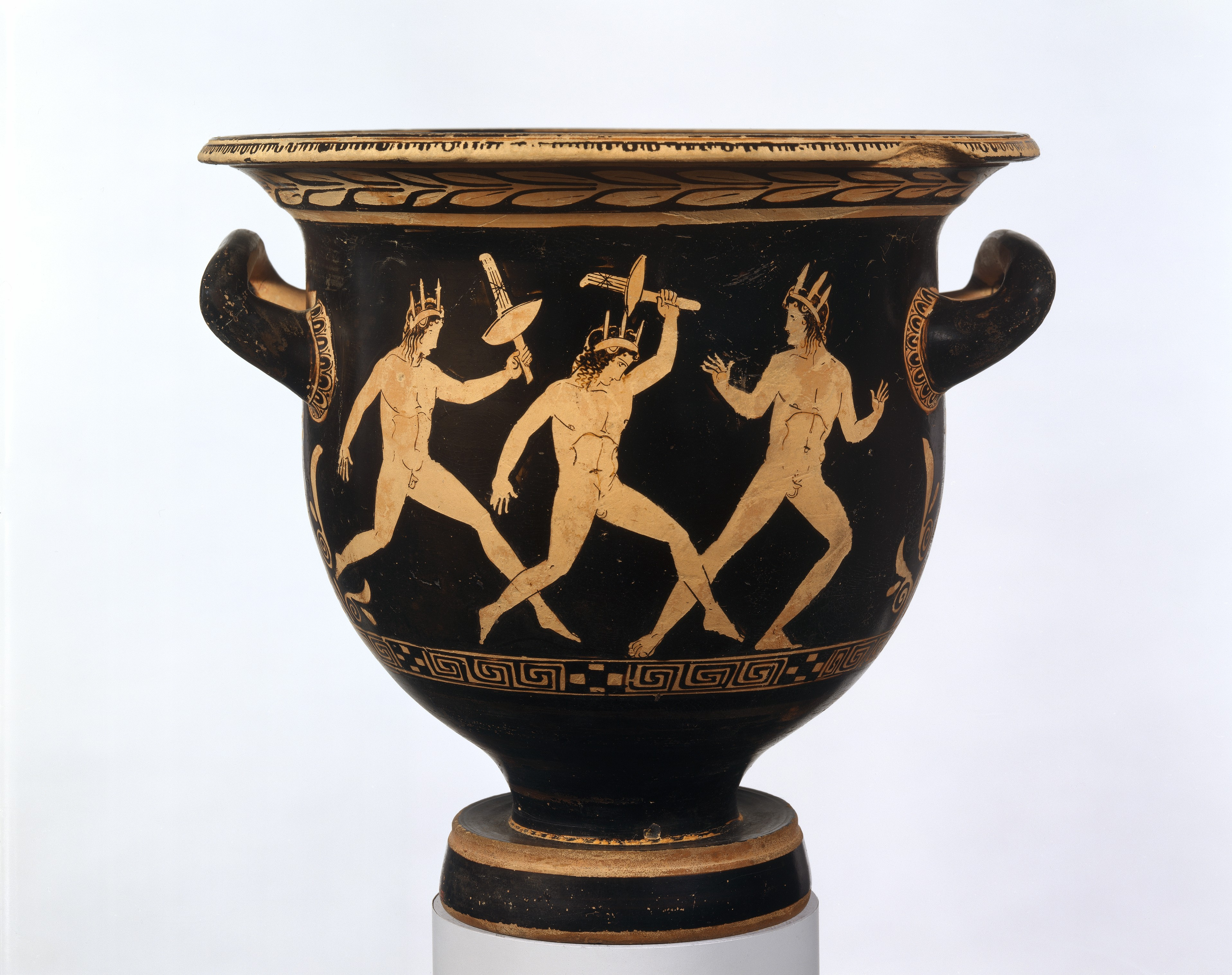 Greek, Attic; Bell-krater; Vases; Obverse, bull being sacrificed; Reverse, torch race